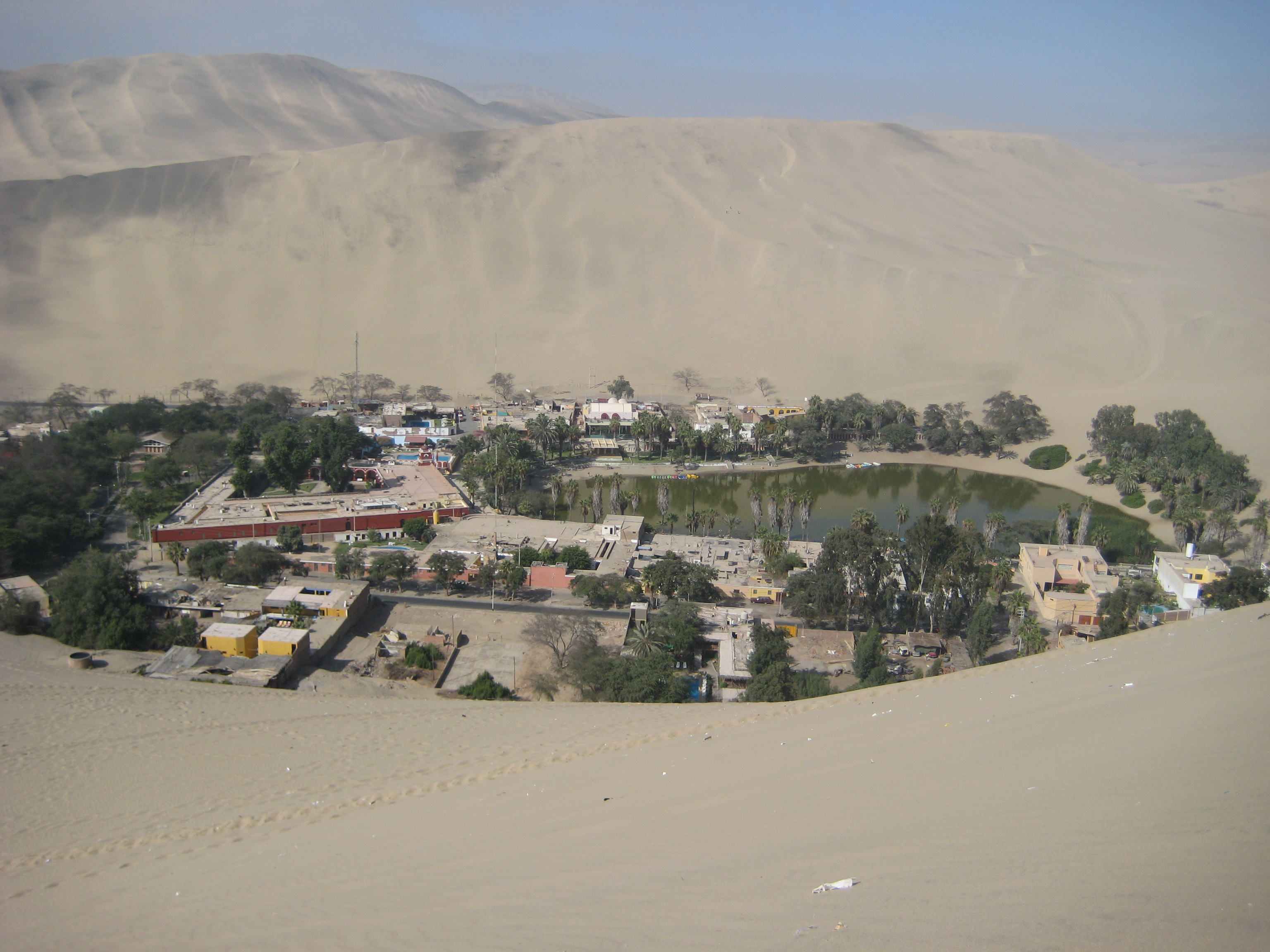 Huacachina in Peru, as seen from one of the sand mountains.